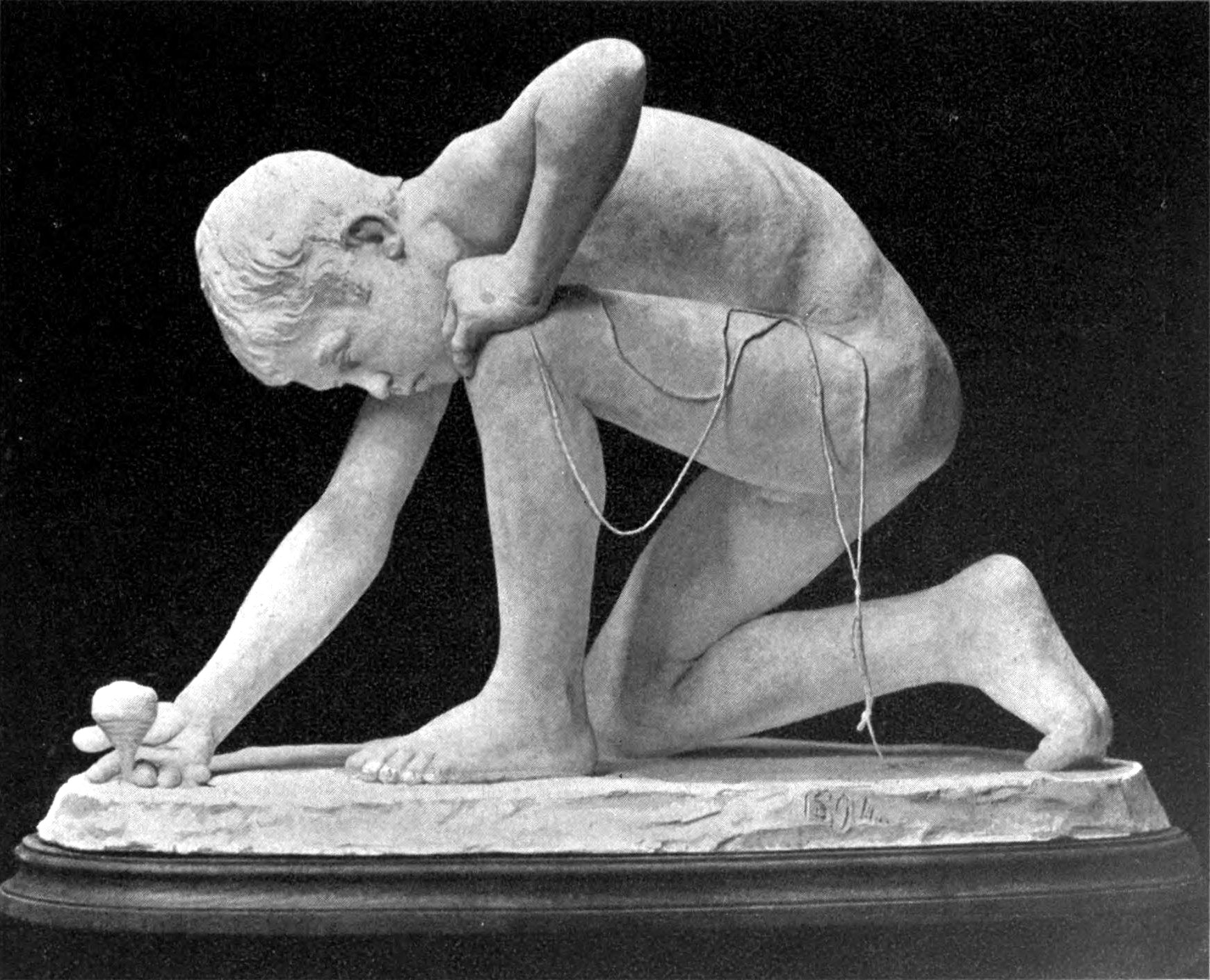 Boy with top